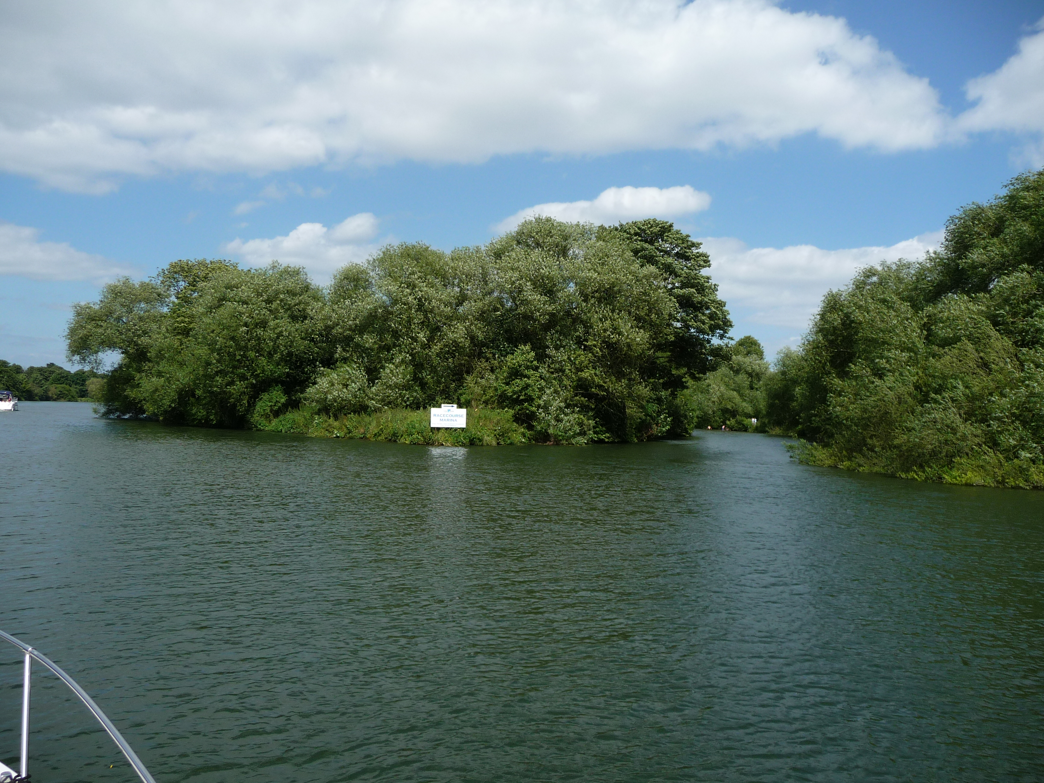 Bush Eyot on the River Thames from the upstream side showing the entrance to Windsor Racecourse Marina.